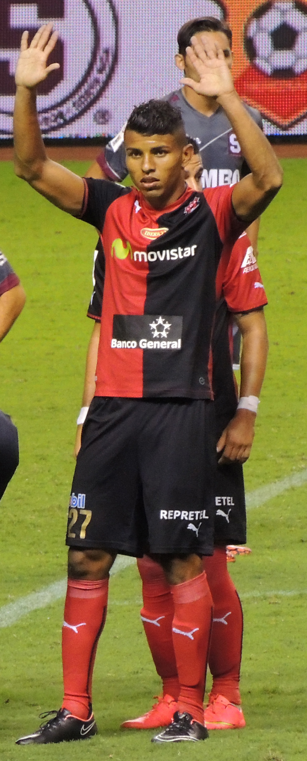 Esta obra de Luis Manuel Madrigal está bajo una licencia de Creative Commons Reconocimiento-CompartirIgual 4.0 Internacional. Para una versión sin logo escriba a